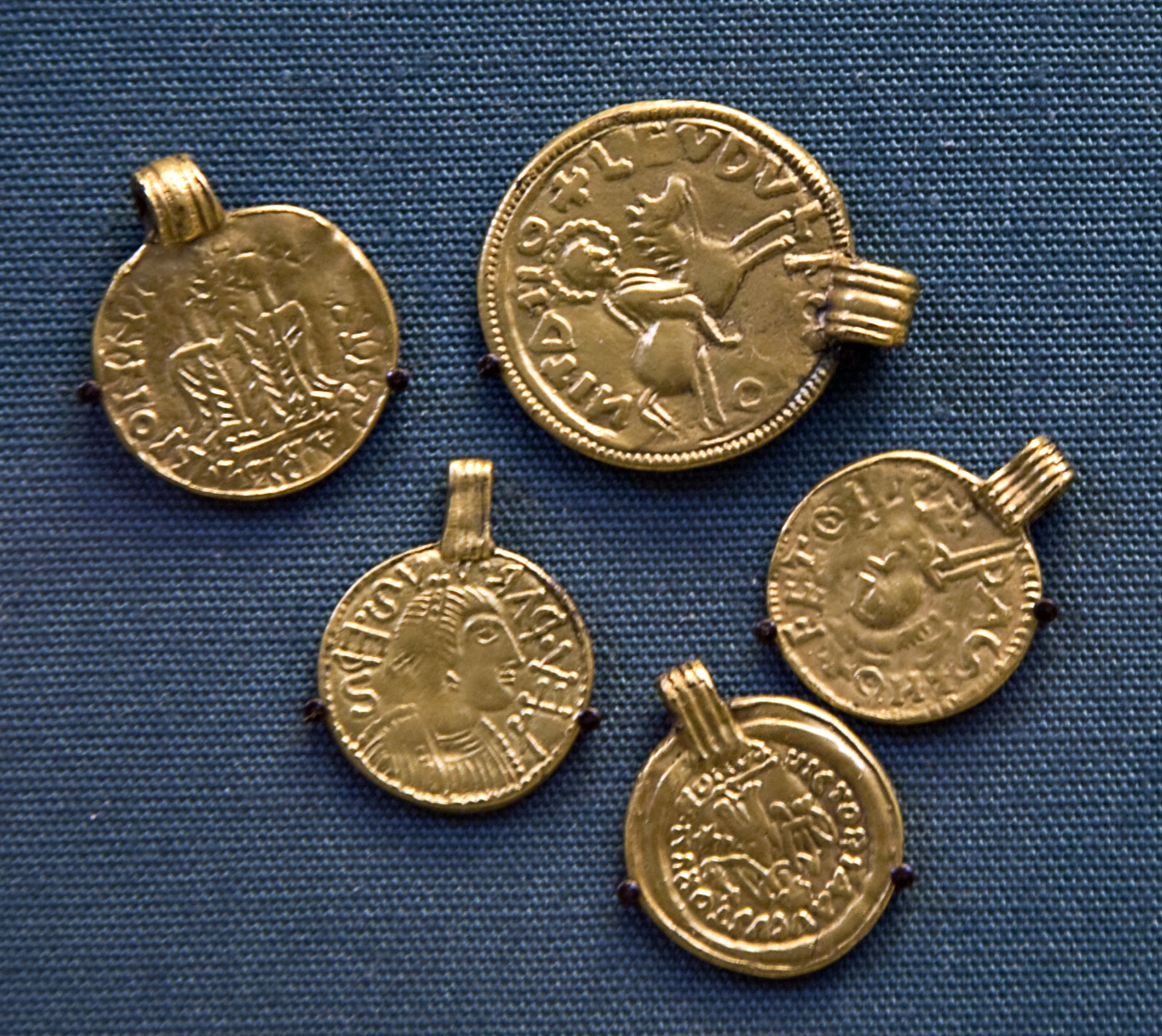 Replicas of the Canterbury-St Martin hoard in the British Museum. Exhibit tag reads: "Electrotypes of gold coin-pendants, c. 590, found near St Martin's church, Canterbury, perhaps grave finds. One names Luidhard, chaplain of Queen Bertha of Kent. Originals in Liverpool Museum, National Museums and Galleries on Merseyside."